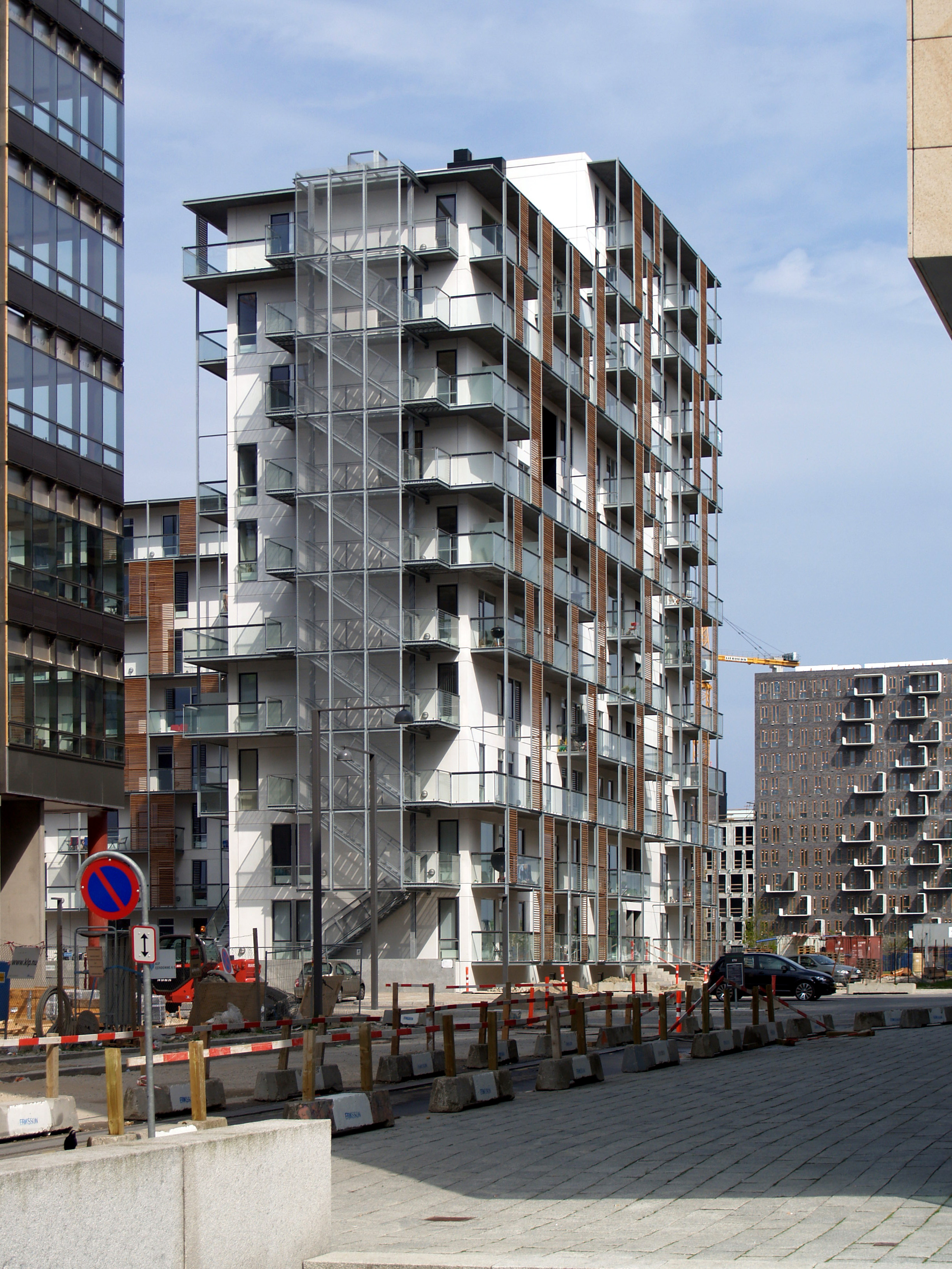 Ørestaden housing. Architects: tegnestuen vandkunsten